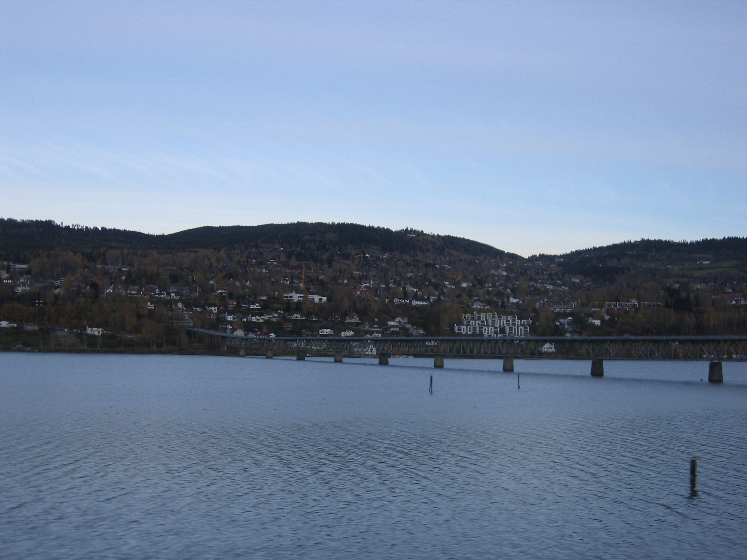 Vingnes bridge in Lilehammer, Norway.